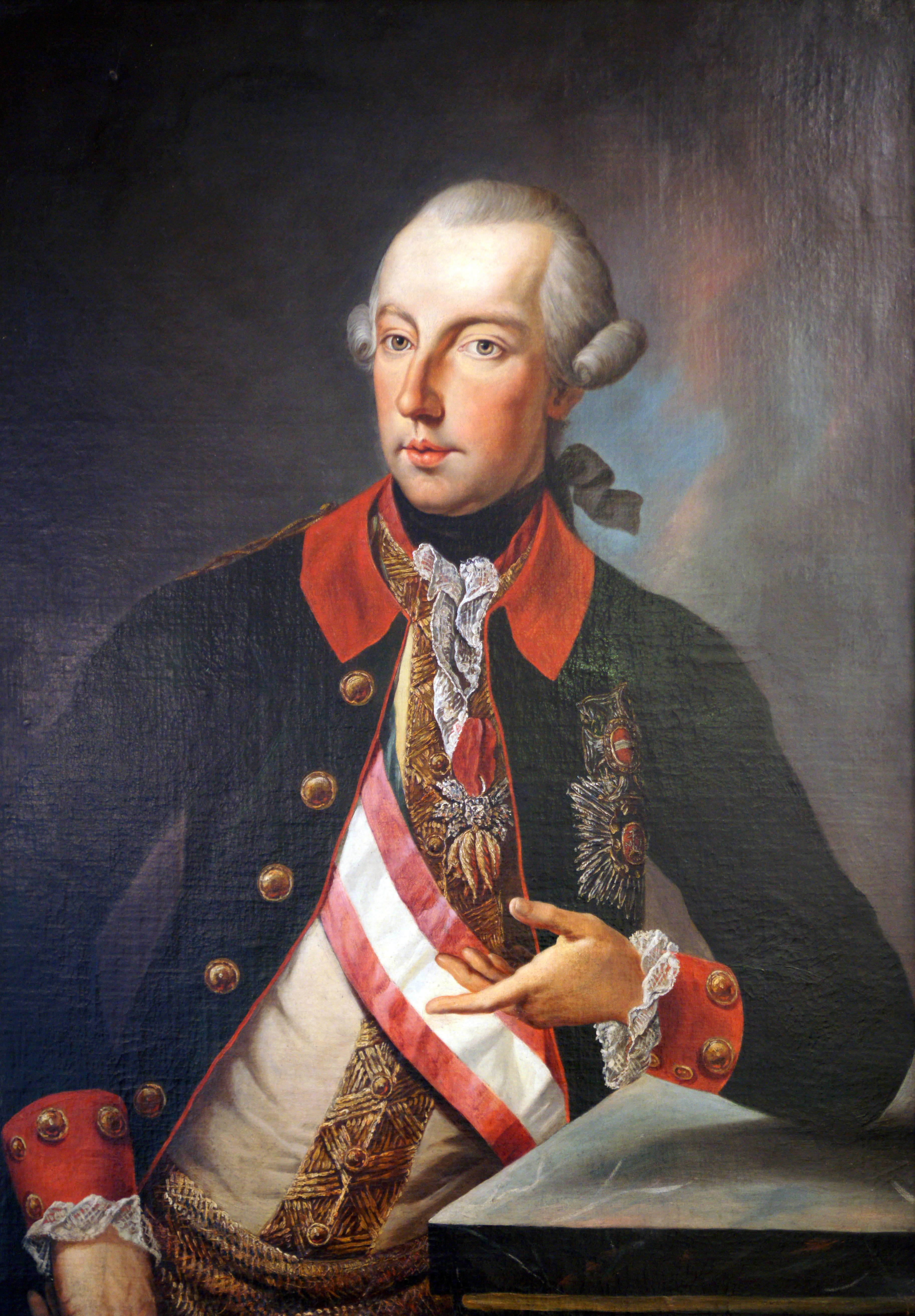 Portrait of Joseph II, Holy Roman Emperor